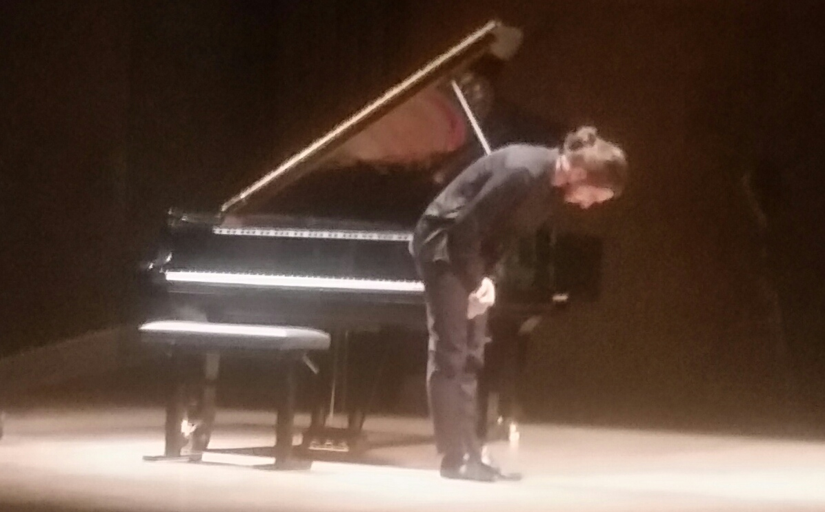 Teo Gheorghiu photographed in Montréal, Québec, Canada at the MBAM Bourgie Hall.